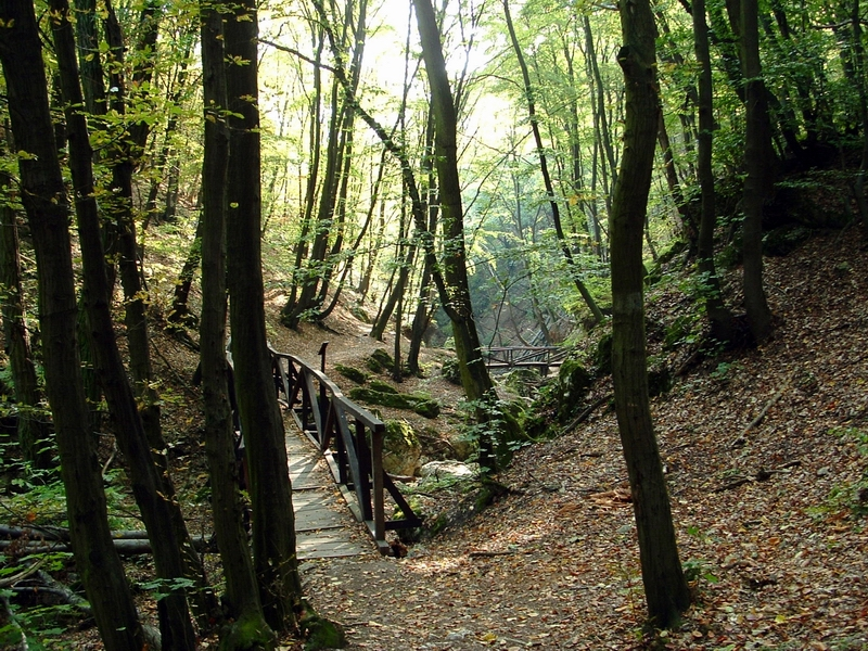 Walking path in the Gorge of Pilis. Pilisszentkereszt Glen.A Dera-patak szurdoka